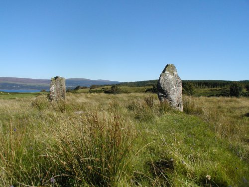 Baliscate Standing Stones Just outside Tobermory these old (Neolithic?) watch over the Sound of Mull